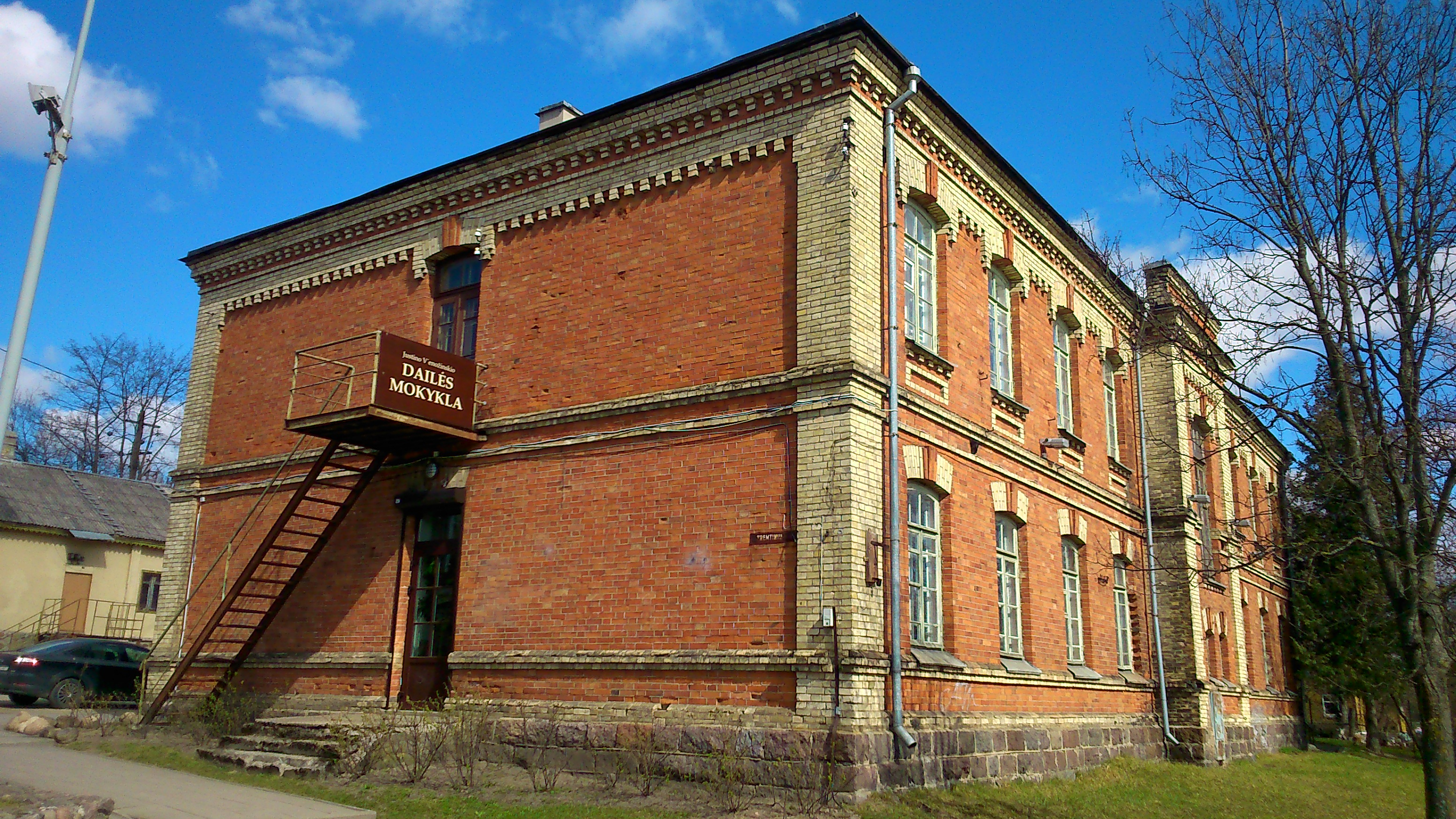 Vienožinskio dailės mokykla